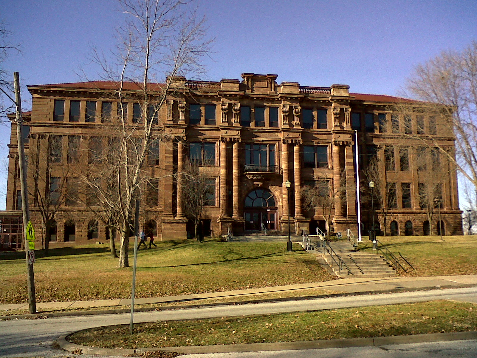 Central High School is located on Main Street in Davenport, Iowa. It is a part of the College Square Historic District on the National Register of Historic Places.